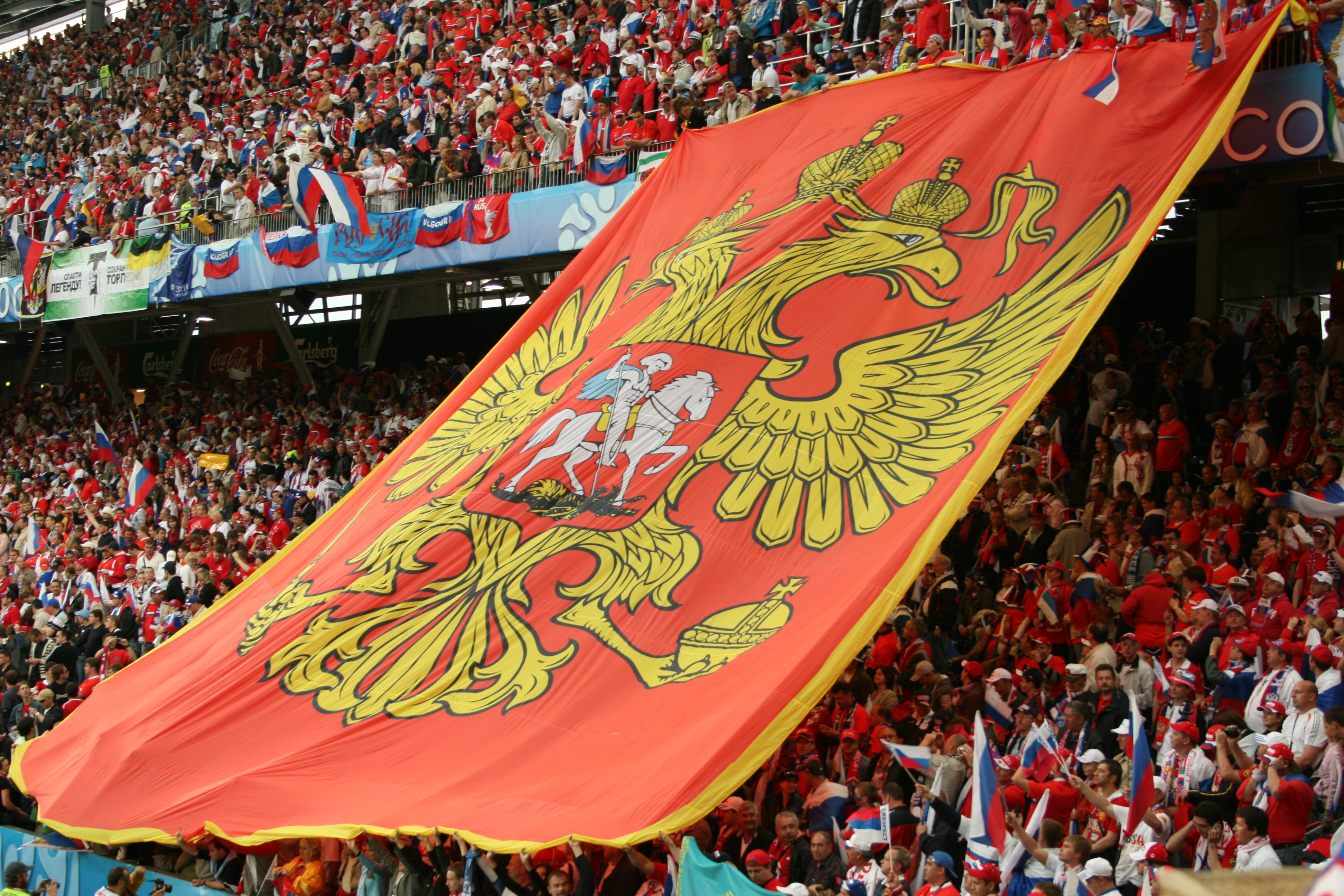 Russian supporters at Euro 2008